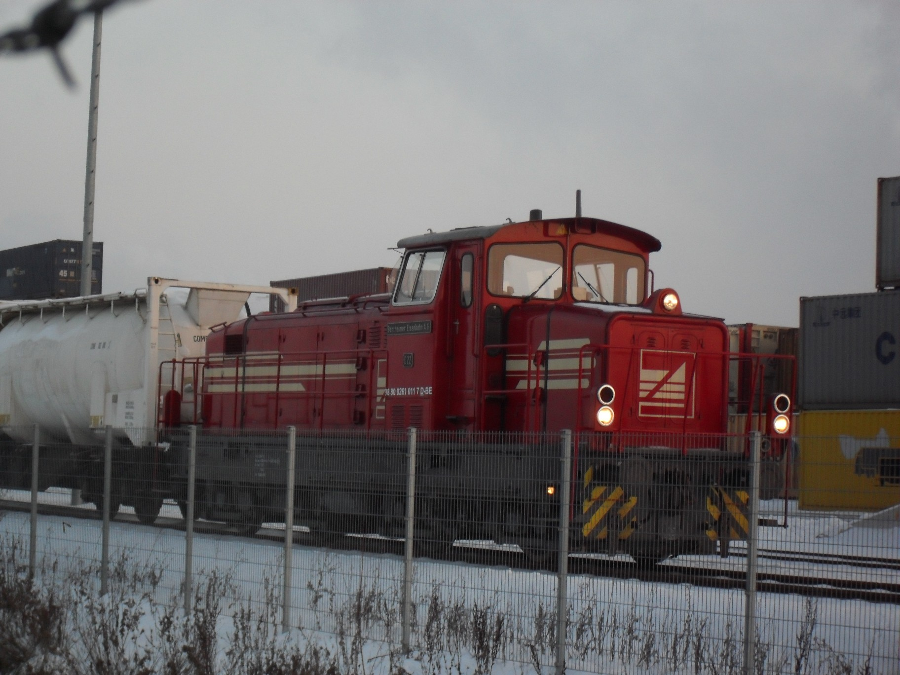 Bentheimer Eisenbahn D22 (98 80 0261 011 7 D-BE)